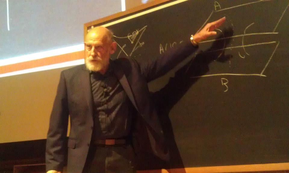 Leonard Susskind giving one of his Messenger Lectures at Cornell